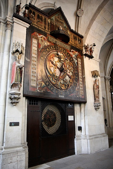 Astronimical Clock at Münster cathedral